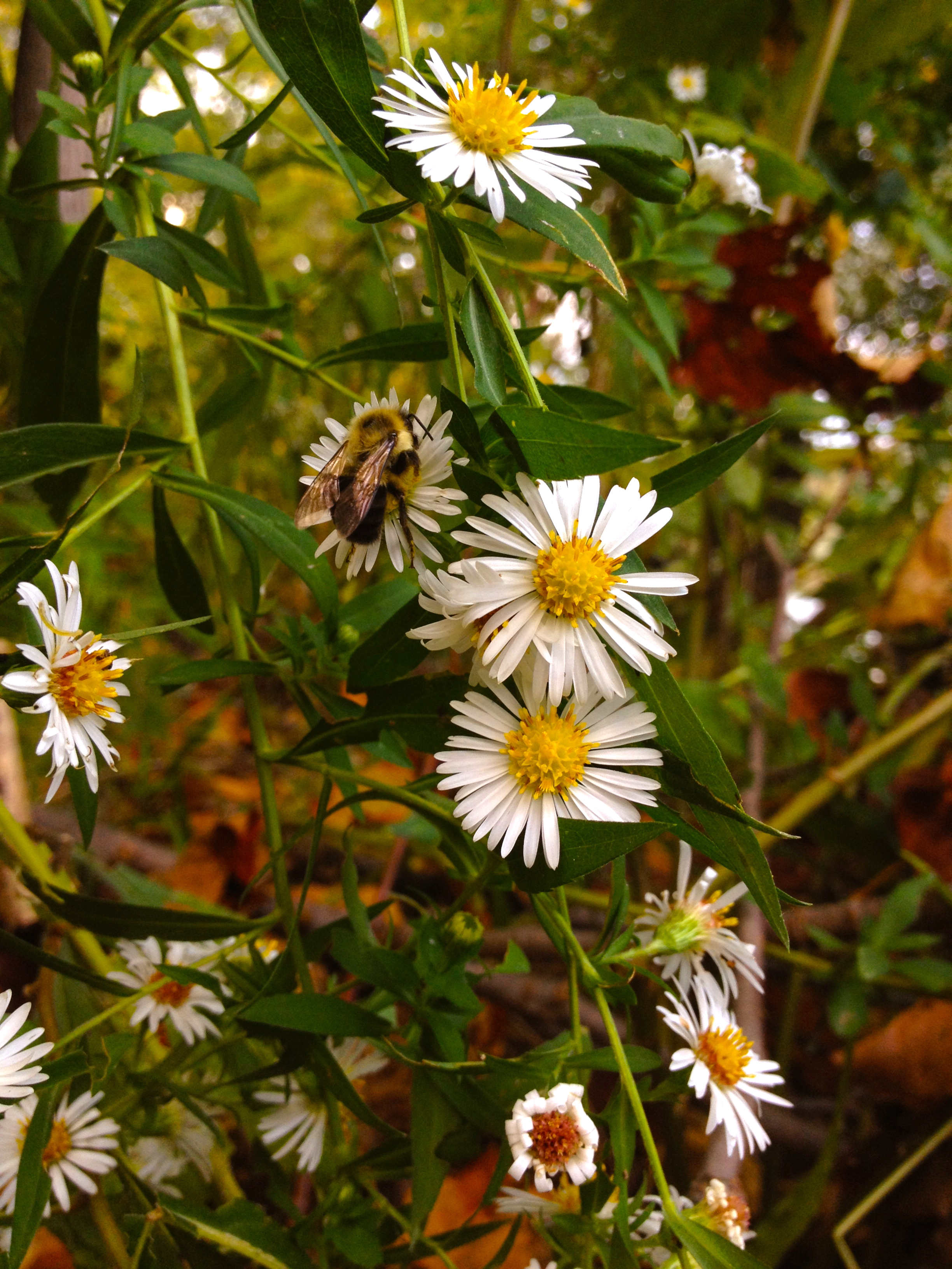 Photo of Symphyotrichum lanceolatum in flower. This is a native plant growing wild along the Potomac Heritage Trail in Fairfax county, Virginia, USA. This species is a member of the Asteraceae family.